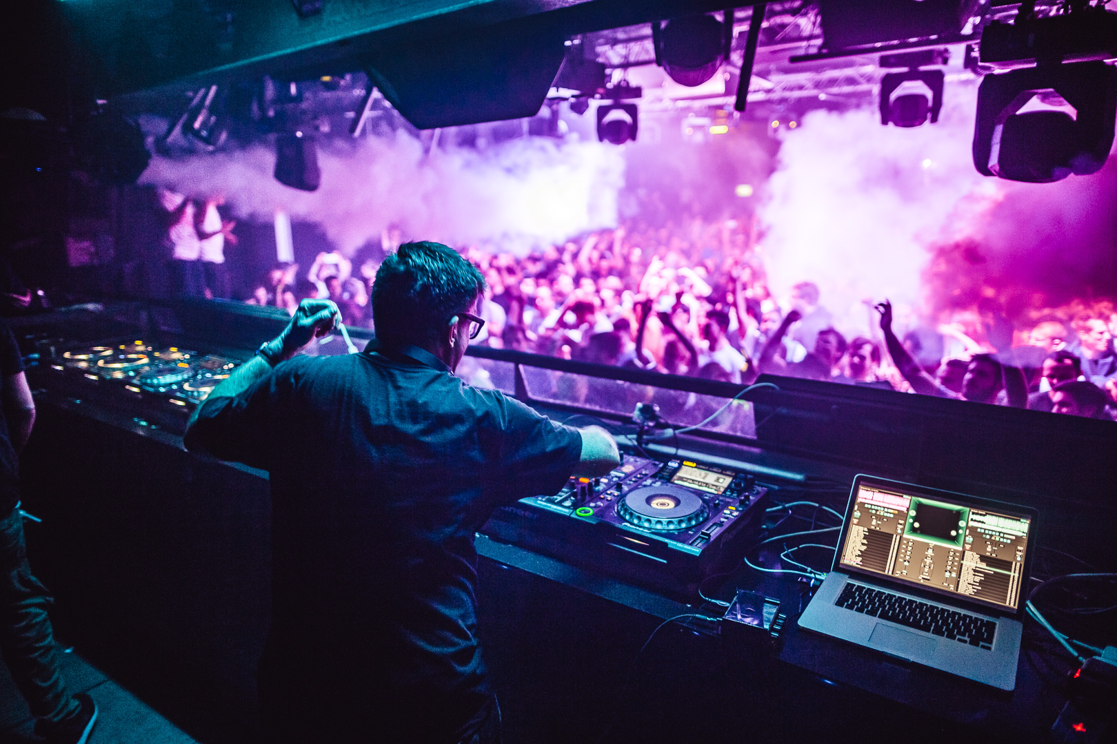 Dolby Atmos in action at Ministry of Sound